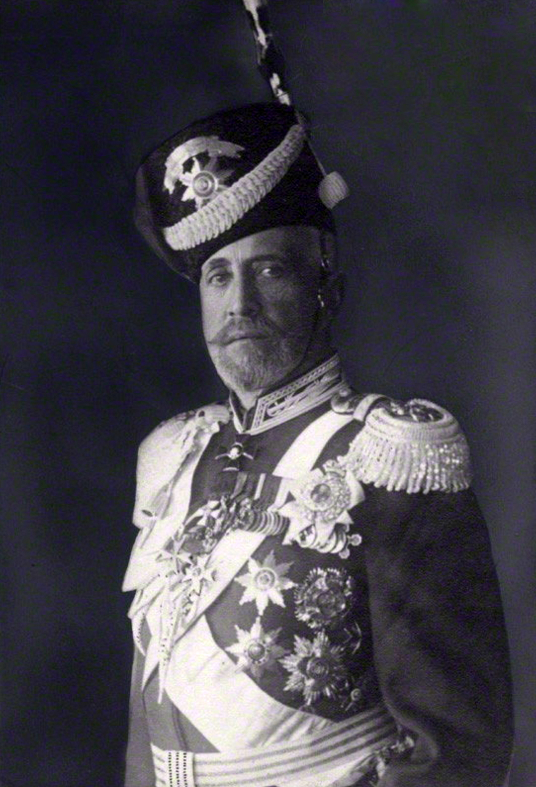 Grand Duke Nicholas Nikolaevich of Russia (1856–1929), photos before 1914